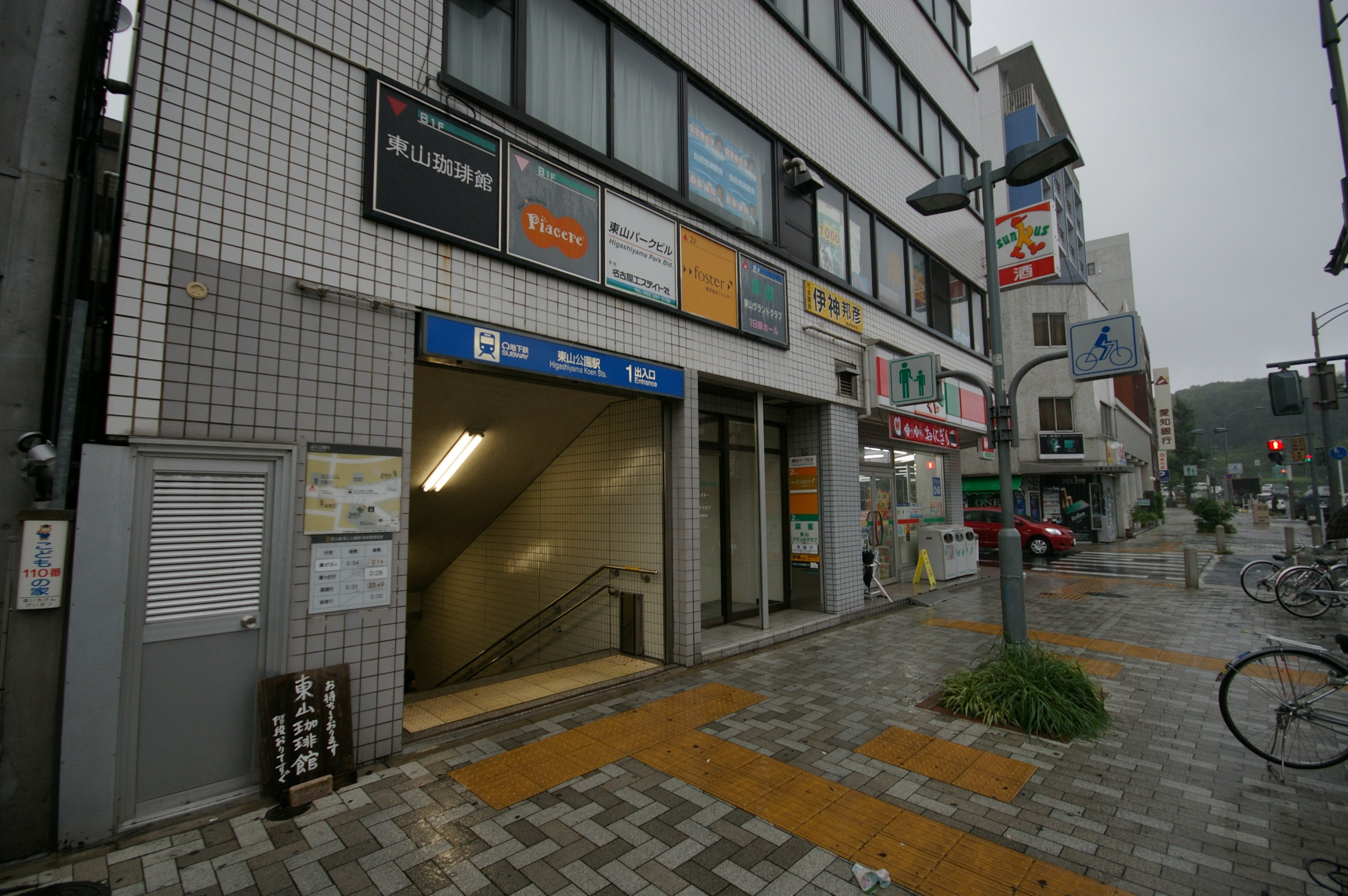 Nagoya Higashiyama-koen subway station.